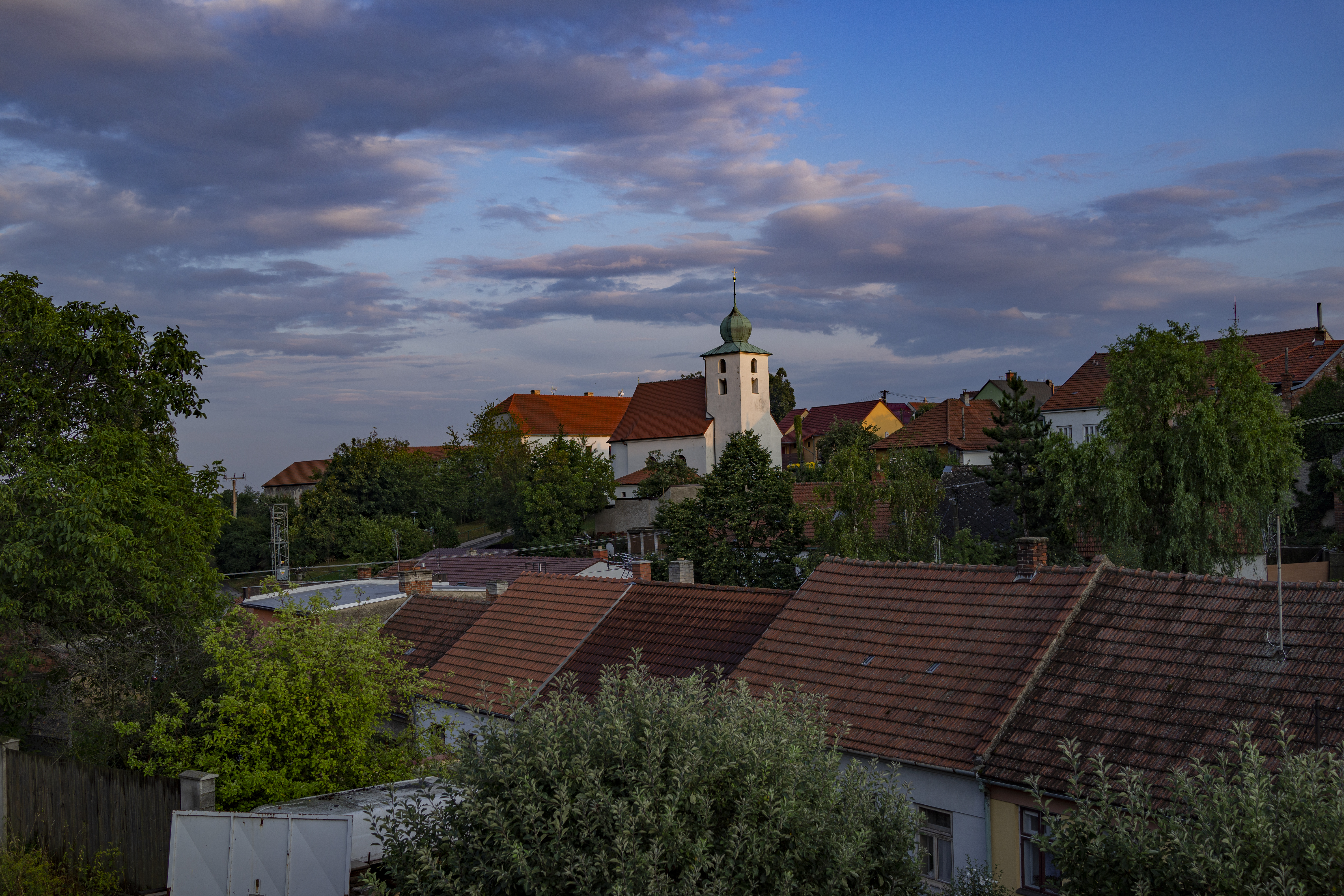 Lukovany, village in Czech Republic